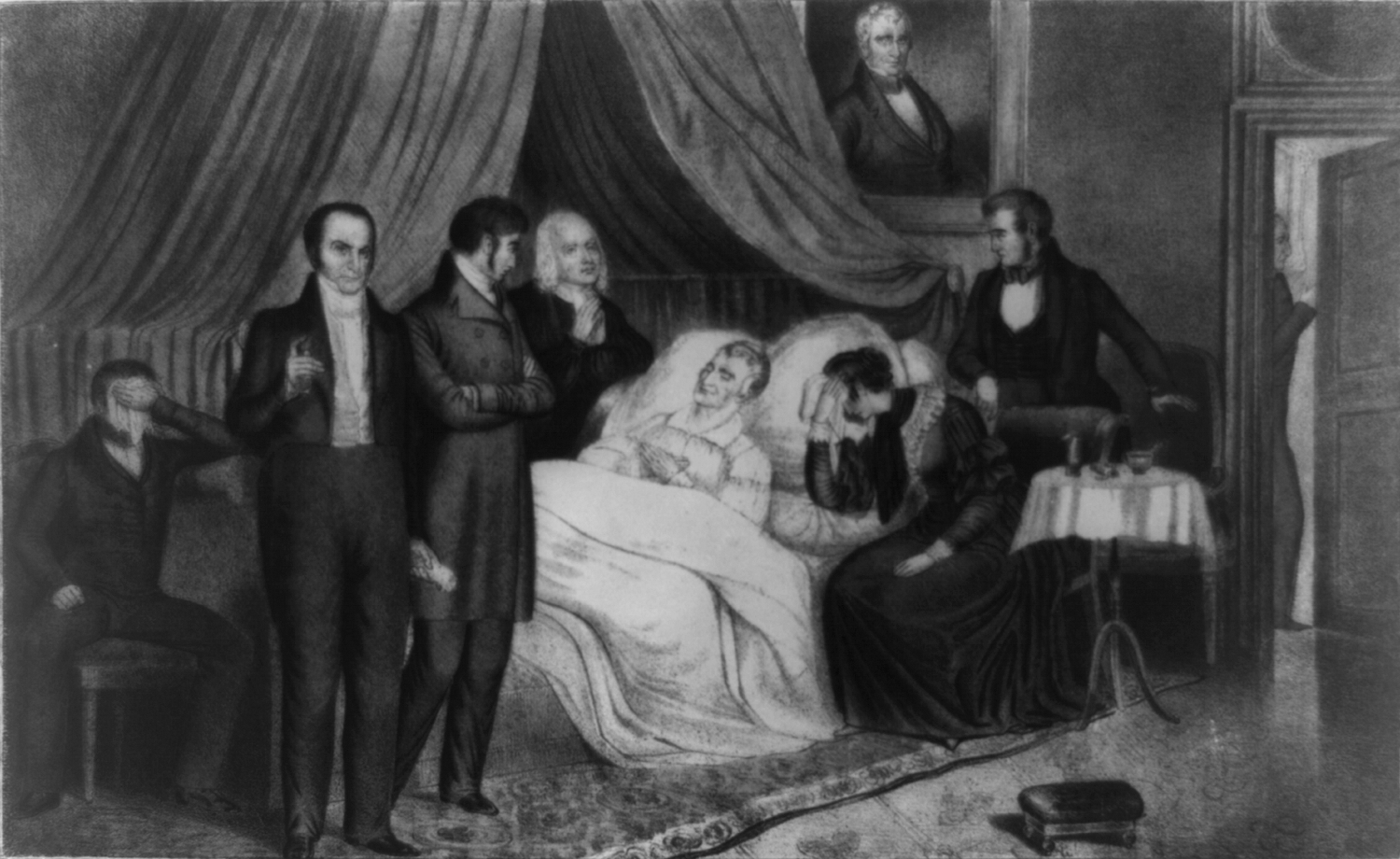 Title Death of Harrison, April 4 A.D. 1841. CALL NUMBER PGA - Currier & Ives--Death of Harrison, April 4 A.D. 1841 (A size) [P&P] SUMMARY William Henry Harrison on his deathbed with Rev. Hawley, a physician, niece, and nephew in attendance, as well as Thomas Ewing, Secretary of Treasury, Daniel Webster, Secretary of State, and Francis Granger (waiting at the door), Postmaster General.